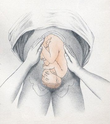 Leopold's Maneuver 2